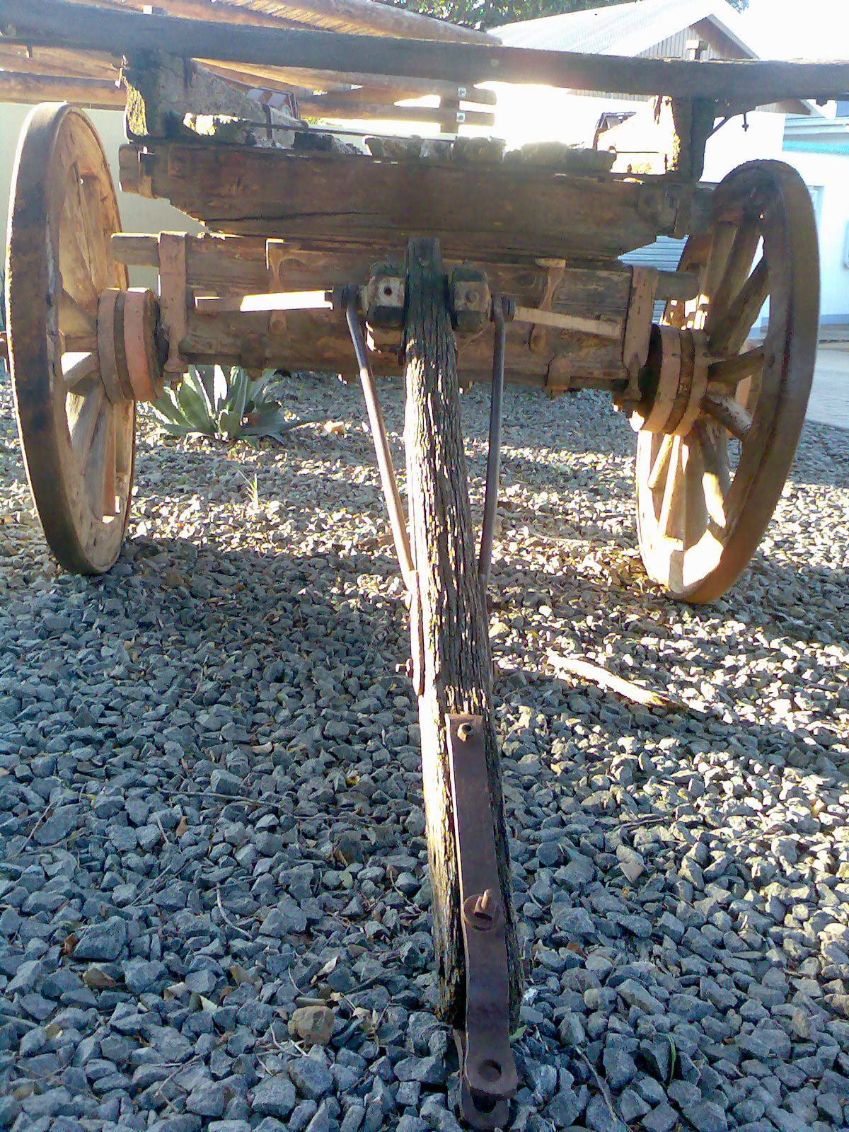 Ox-wagon front assembly at Aliwal North, Eastern Cape.